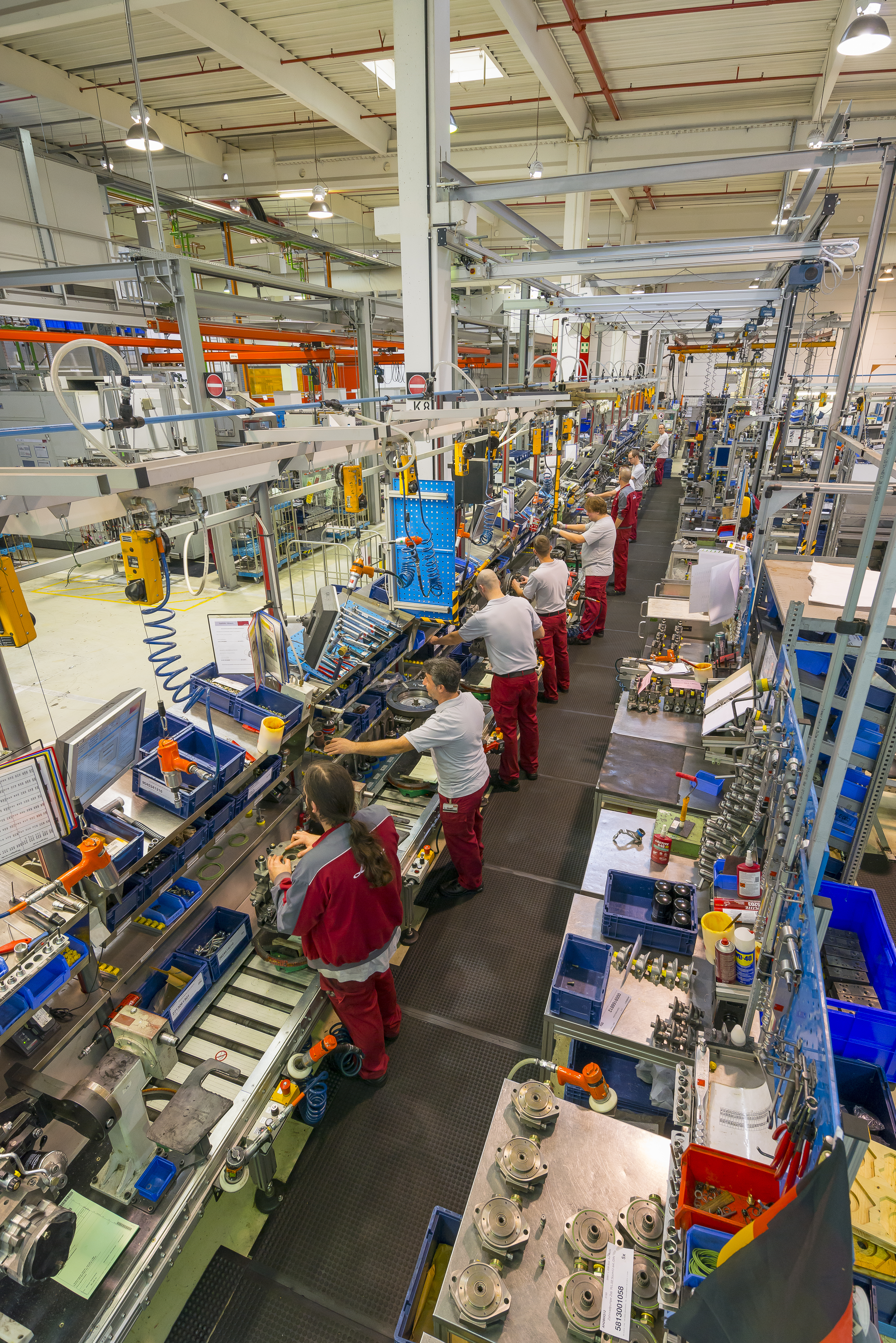 Linde Hydraulics plant